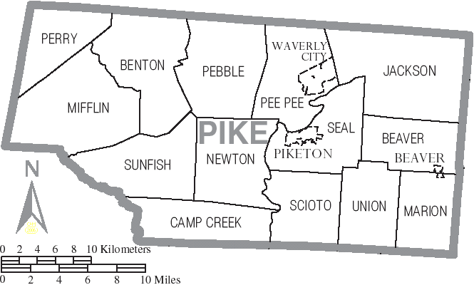 Map of Pike County, Ohio, United States with township and municipal boundaries